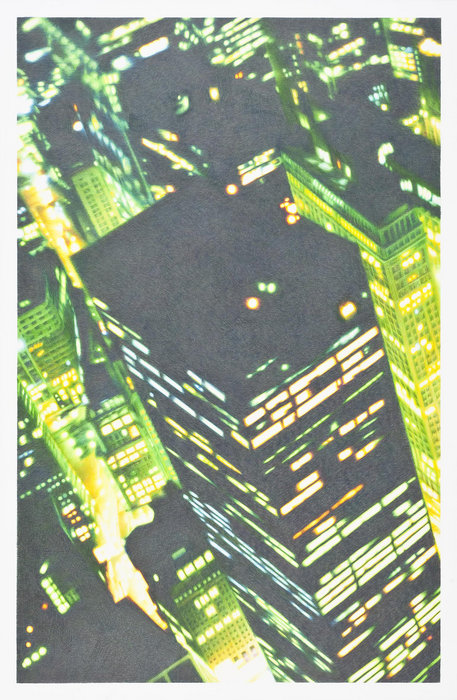 Slawomir Elsner Windows on the World, Nr. 11, 2010 crayon on paper, 168 x 110 cm